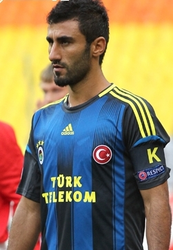 Selçuk Şahin